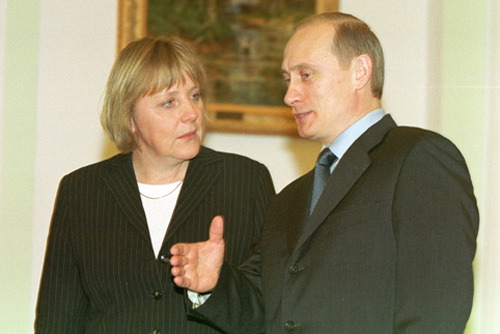 THE KREMLIN, MOSCOW. Meeting with the leader of Germany's Christian Democratic Union, Angela Merkel.